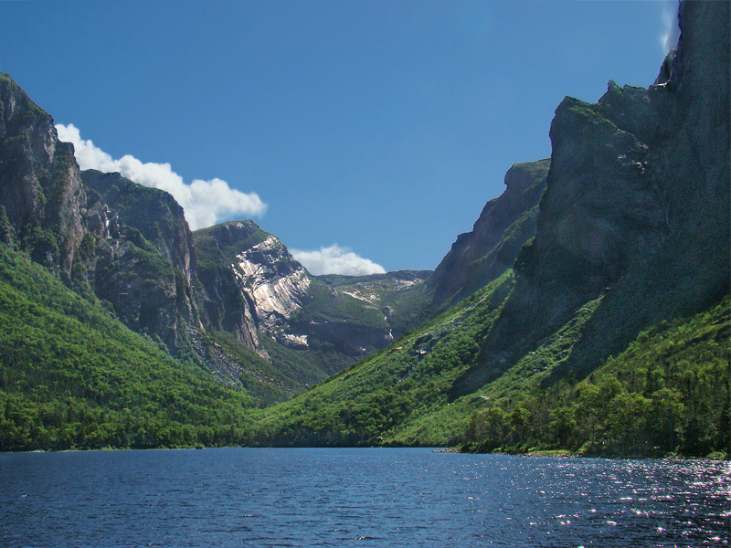 Gros Morne National Park, Western Newfoundland, Canada. Eastern dead end of Western Brook Pond. A suspended valley can be seen here, which shows the bottom has already been at a higher altitude than today.